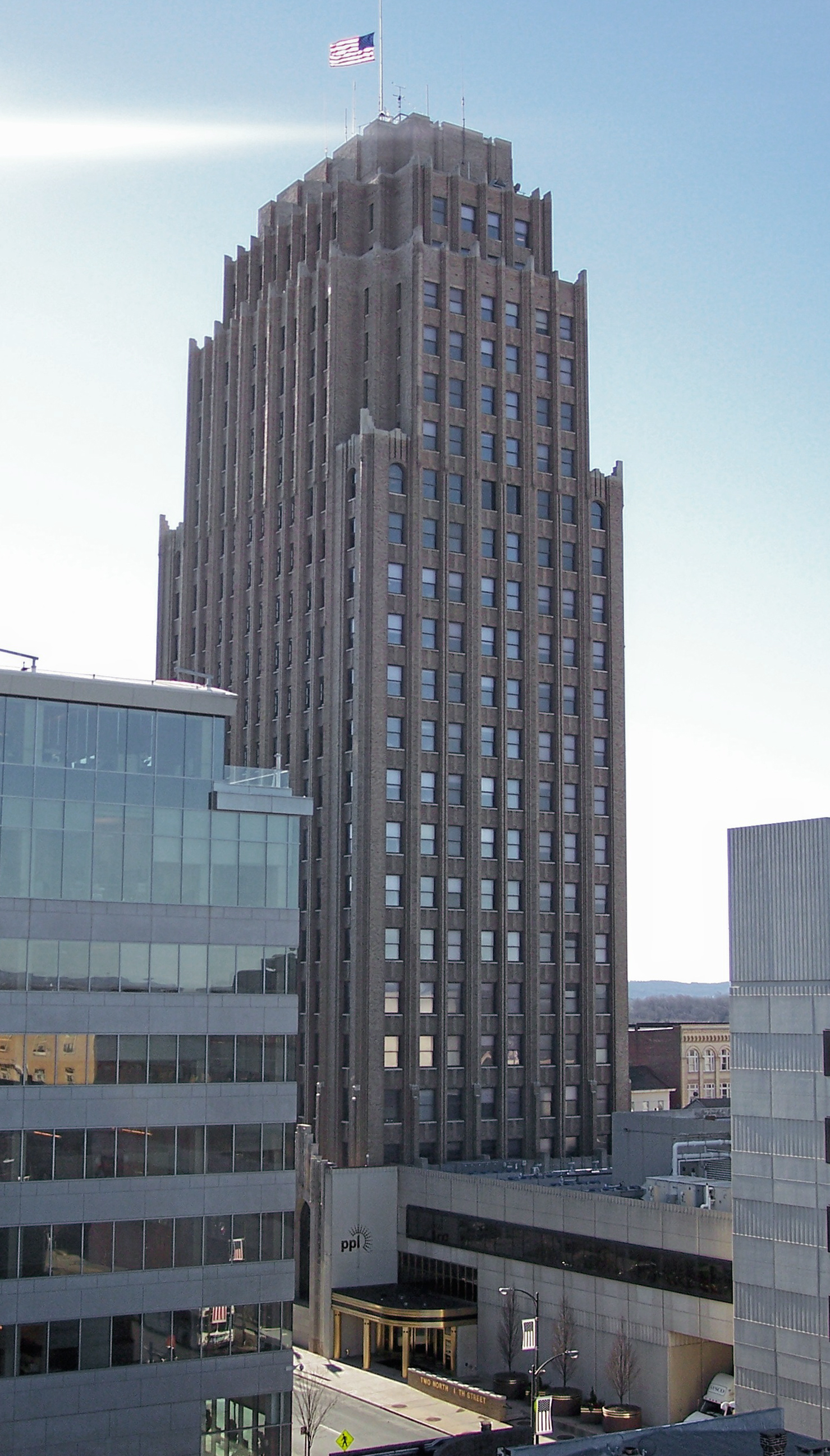 The PPL Building in downtown Allentown, Pennsylvania, as viewed from atop a parking garage on West Linden Street